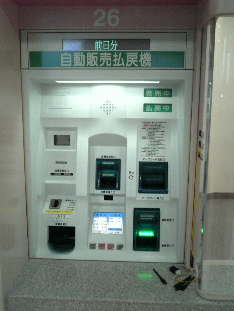 Betting ticket machine (自動券売機), manufactured by the NIPPON TOTOR Co.,Ltd. I took this picture at Boatpier Iwama, Kasama, Ibaraki, Japan.